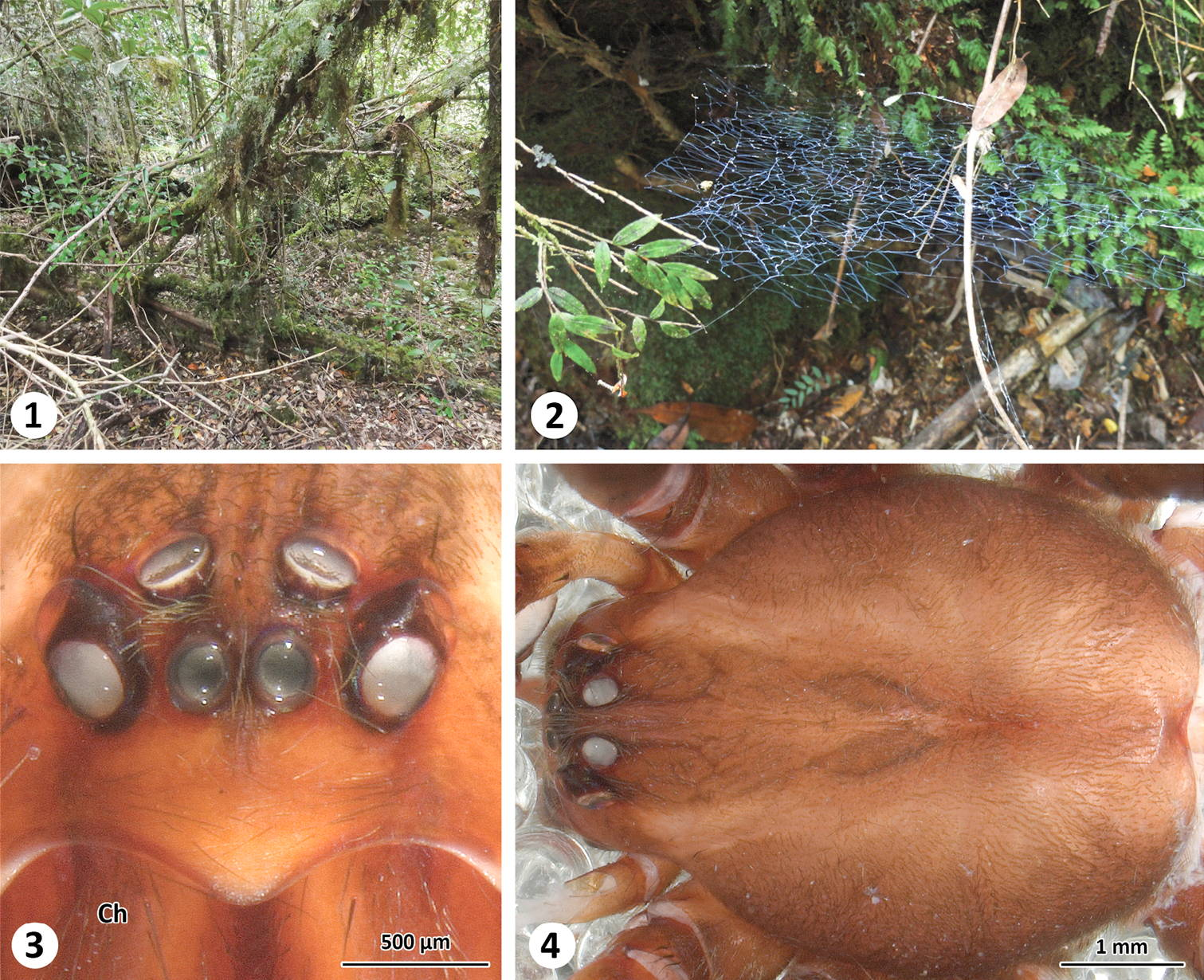 A male of Thaida chepu (Araneomorphae: Austrochilidae) close to the type locality in a wet lowland mixed forest at Lago Huillinco (Chiloé, Chile). 1 – habitat, 2 – web, 3 – frontal view of prosoma, 4 – dorsal view of prosoma.